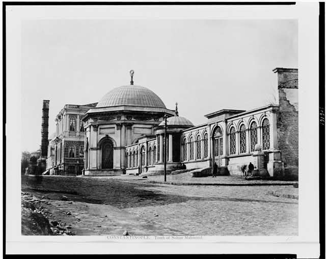 Mausoleum of Sultan Mahmud II between 1860 and 1890